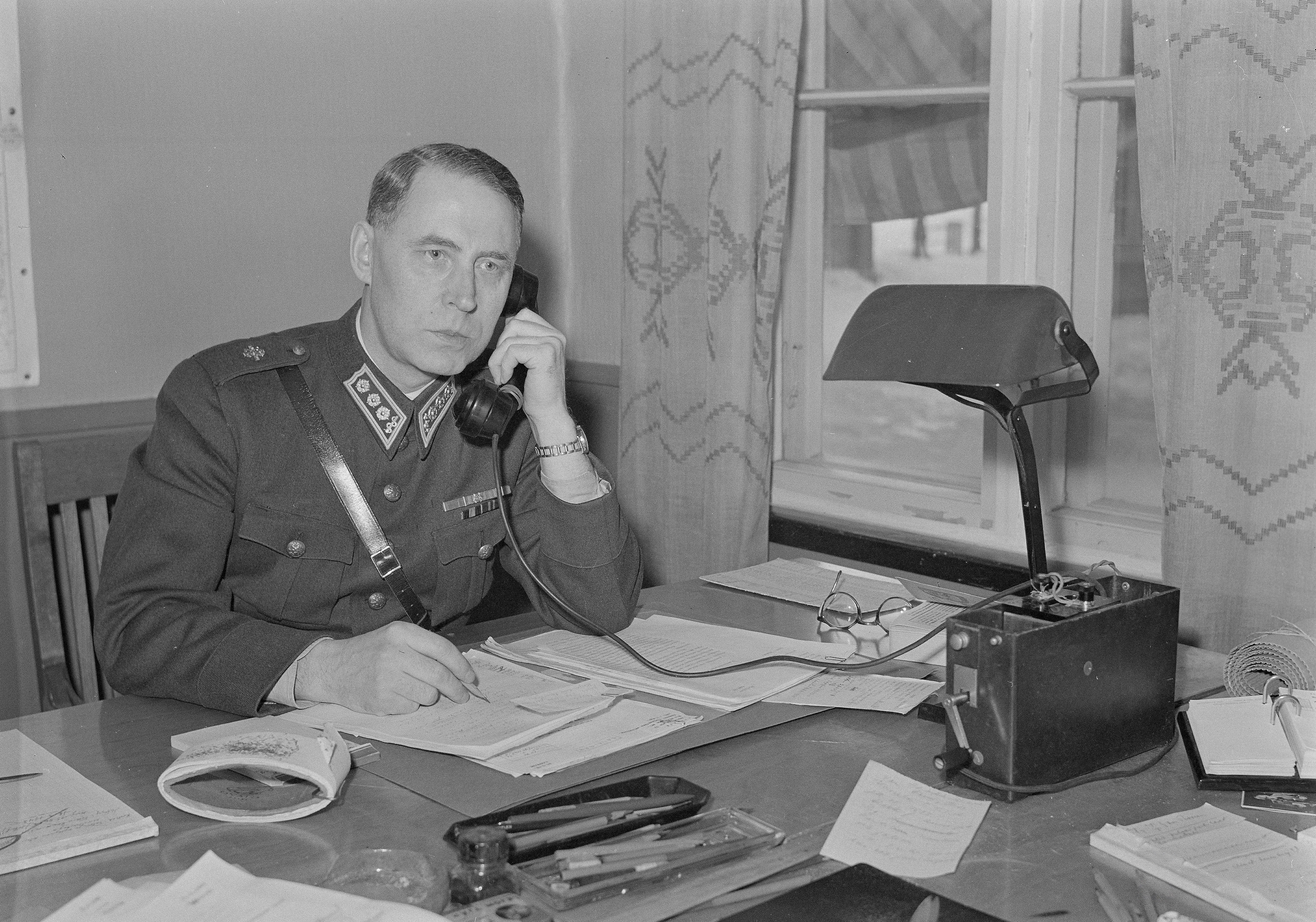 Photograph of the Finnish physician and officer Mauno Vannas (1891–1964).